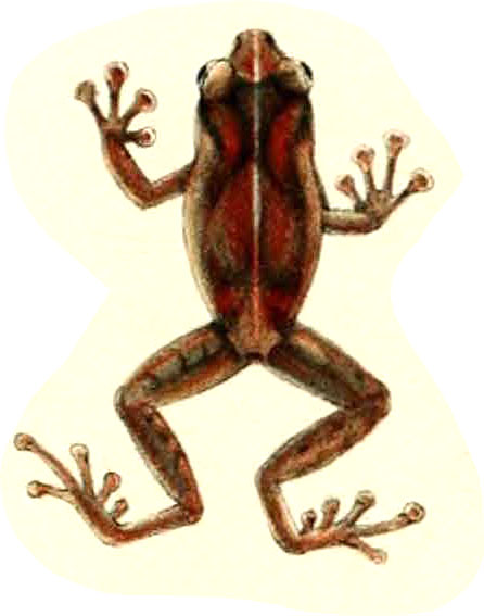 Oreophryne celebensis (Müller, 1894), colour variant. From Boulenger's "A catalogue of the reptiles and batrachians of Celebes..." (1897), given as Sphenophryne celebensis.